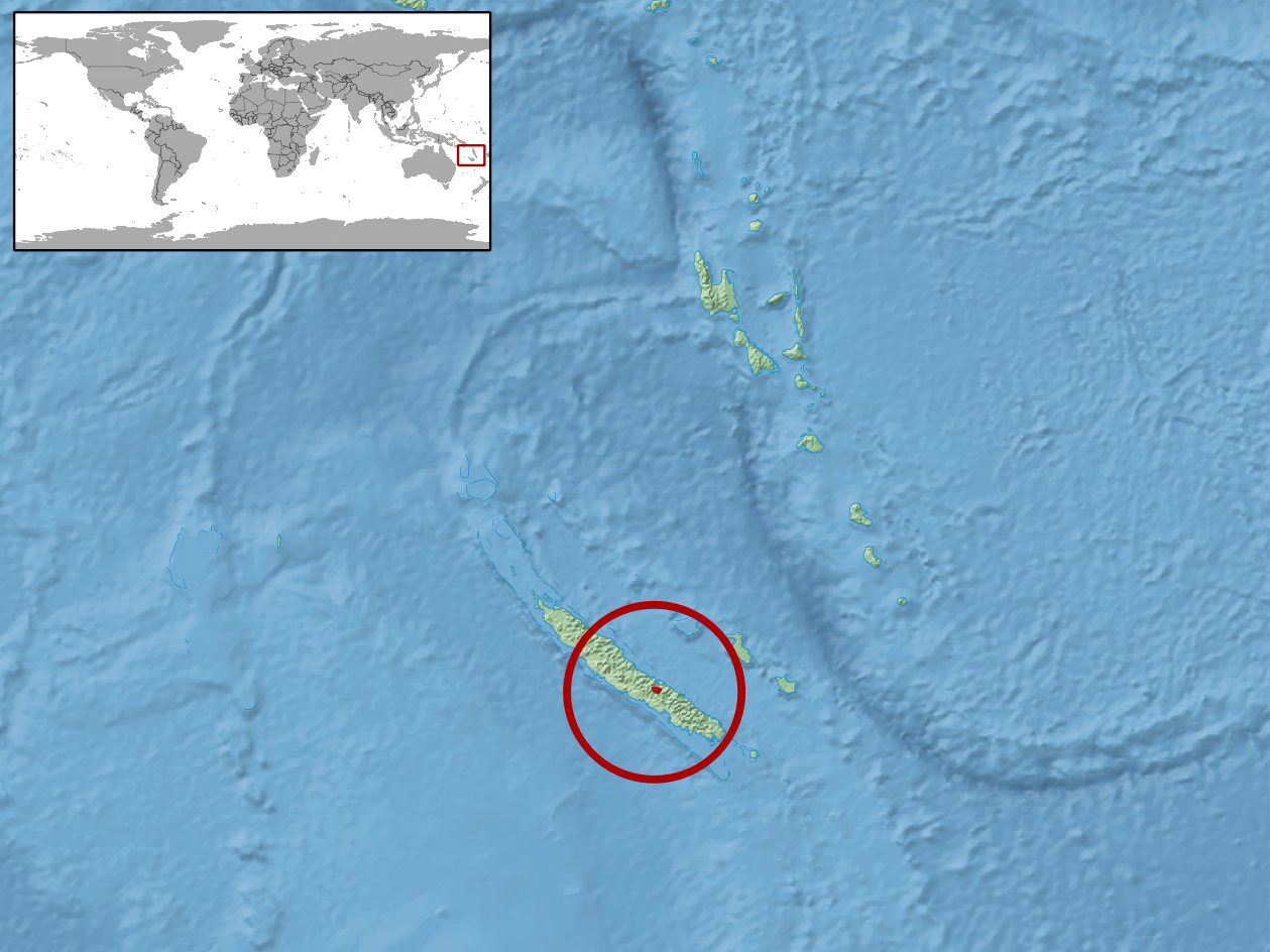 geographic distribution of Caledoniscincus cryptos